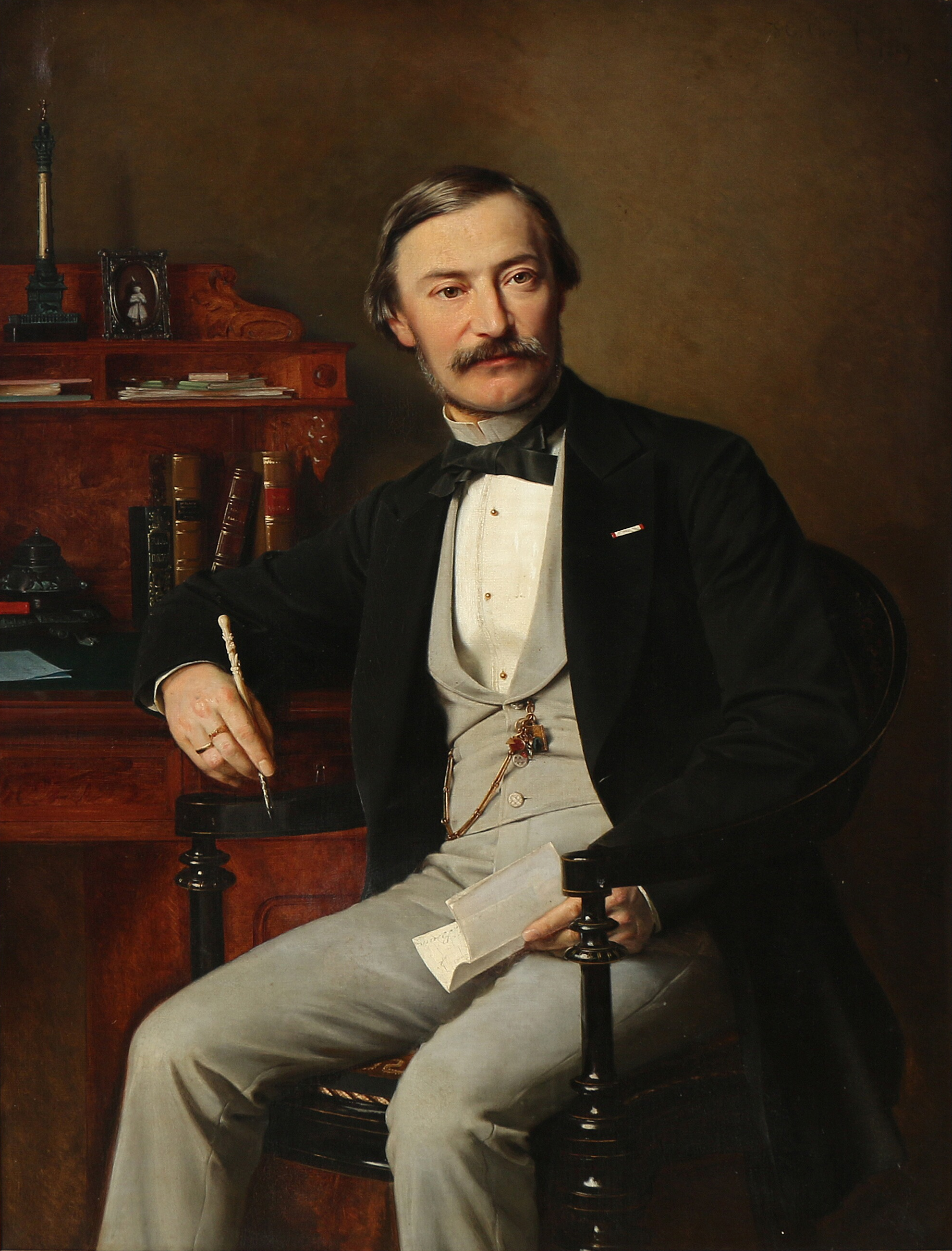 This portrait was painted in 1869 on the occasion of Bruun's appointment to the Order of the Dannebrog.